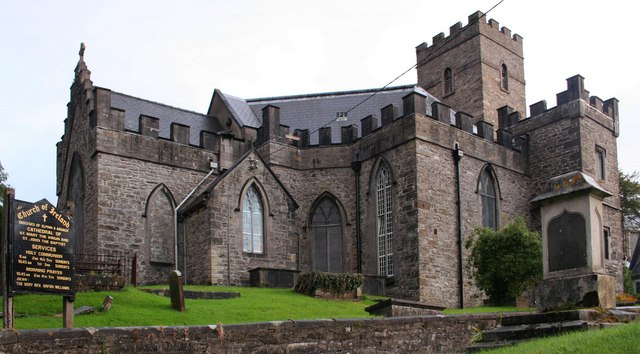 Sligo Cathedral. Church of Ireland cathedral of St. Mary the virgin and St. John the baptist for the dioceses of Elphin & Aroagh